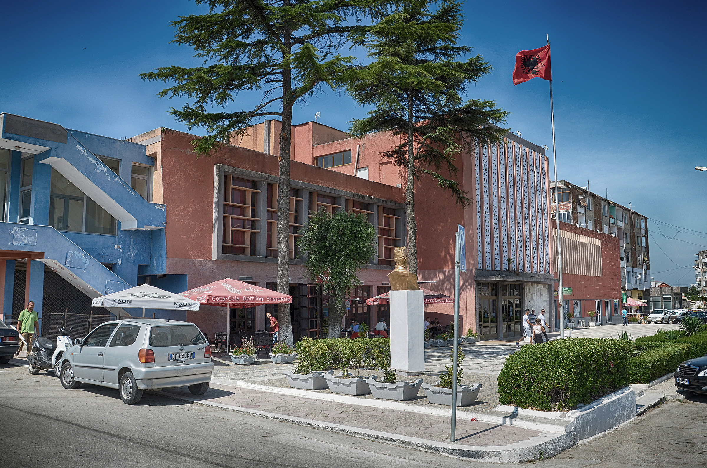 The then town hall of Patos, Albania in 2016, later turned into cultural center